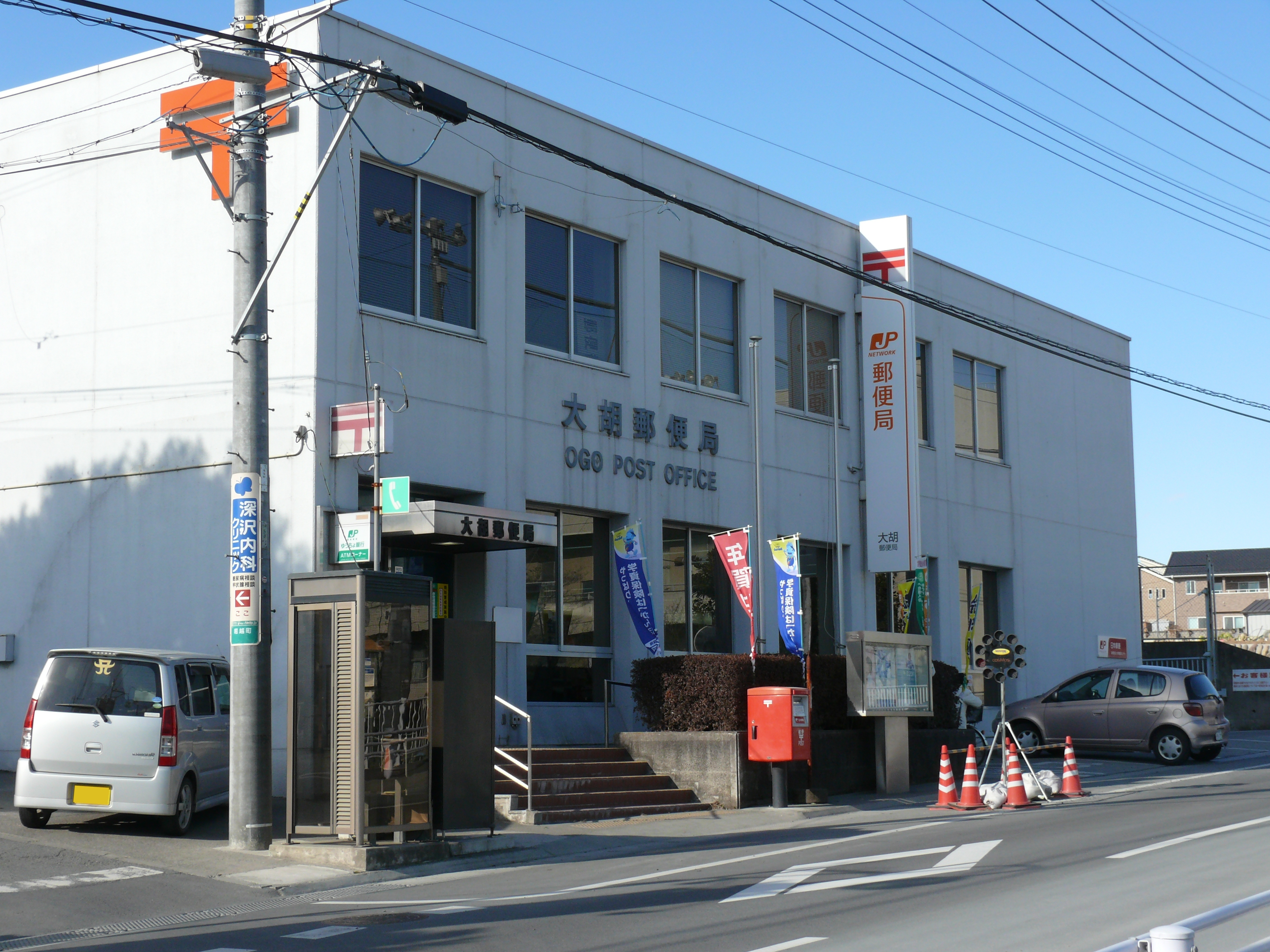 Ogo post office